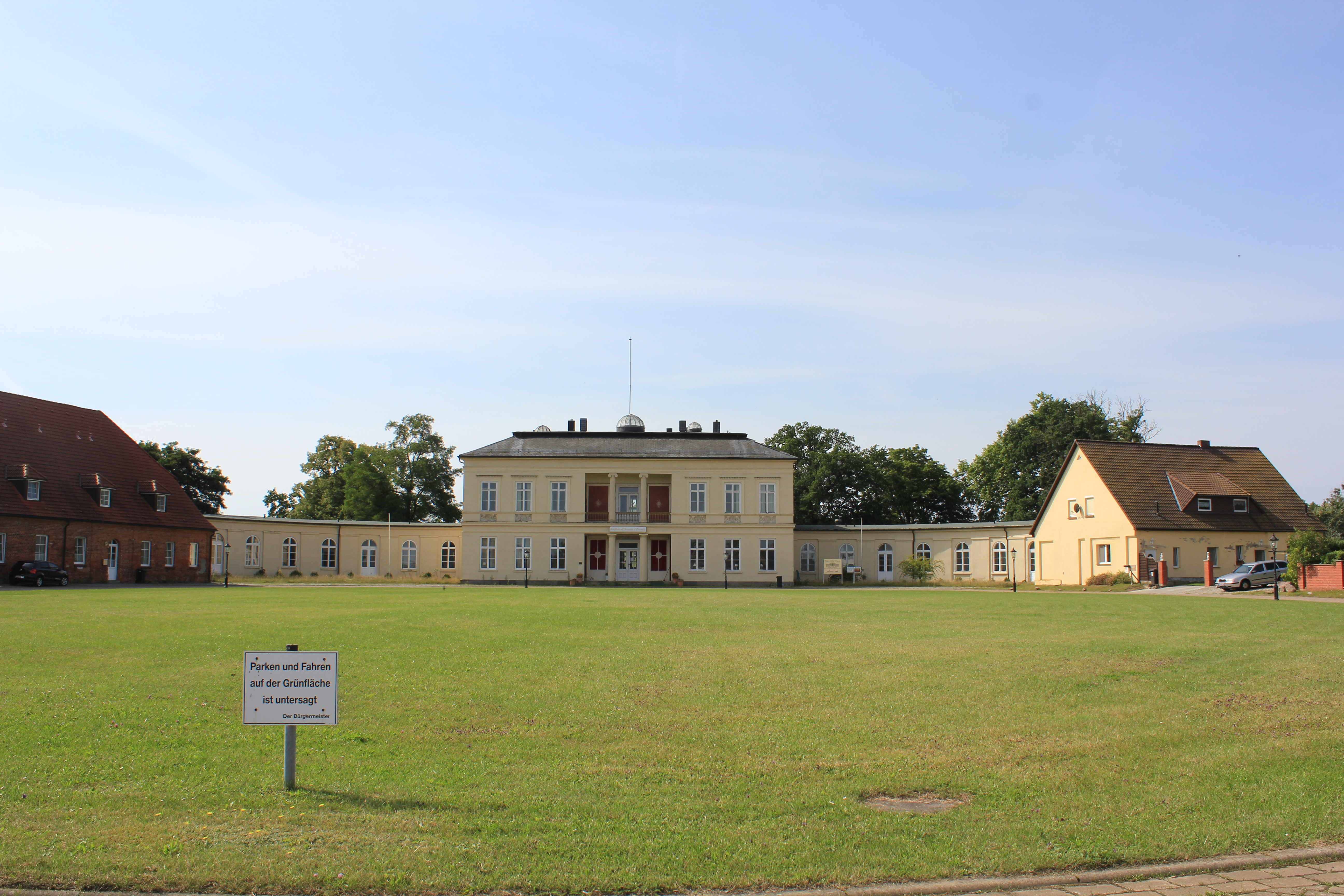 Manorhouse in Passow in Germany